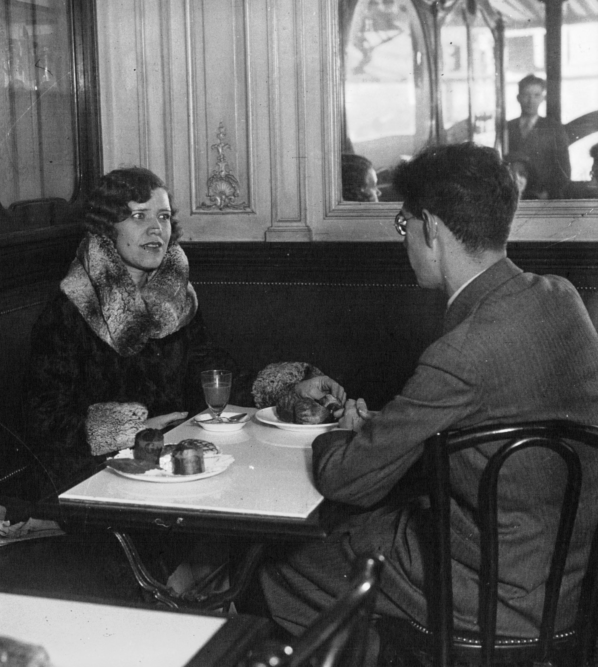 Grigori Rasputin's daughter Maria Rasputin (1898-1977) being interviewed by a journalist from the Spanish magazine Estampa in 1930.